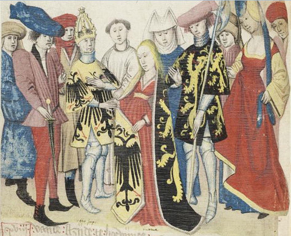 Marriage of Marie of Brabant to Otto IV (HRR)